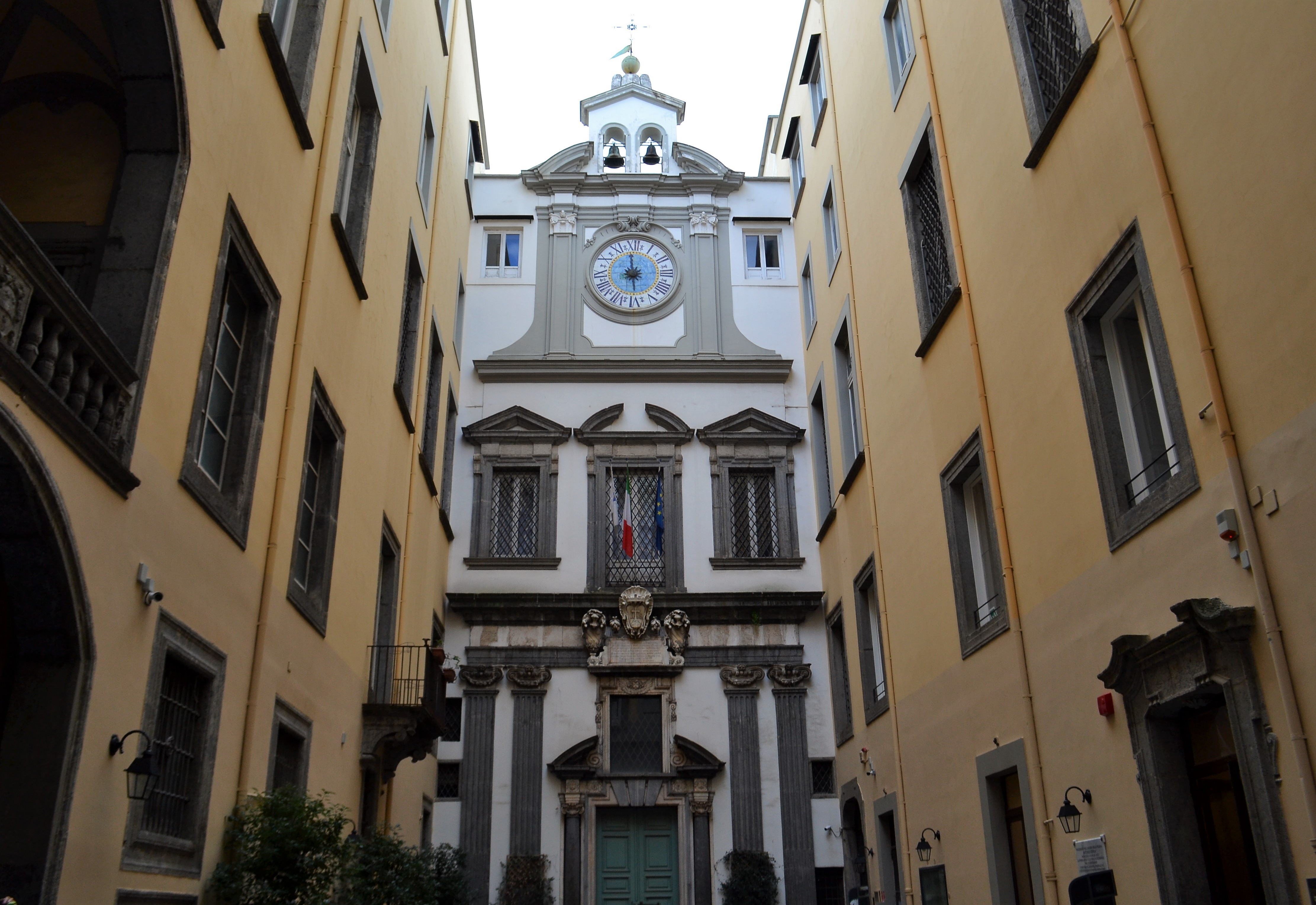 The Palazzo Ricca is a monumental palace, located on the southernmost end of Via dei Tribunali number 231, in central Naples, Italy. It presently houses the archives of the Foundation of the Istituto Banco di Napoli. The palace is just down the street from the entrance to Castel Capuano.